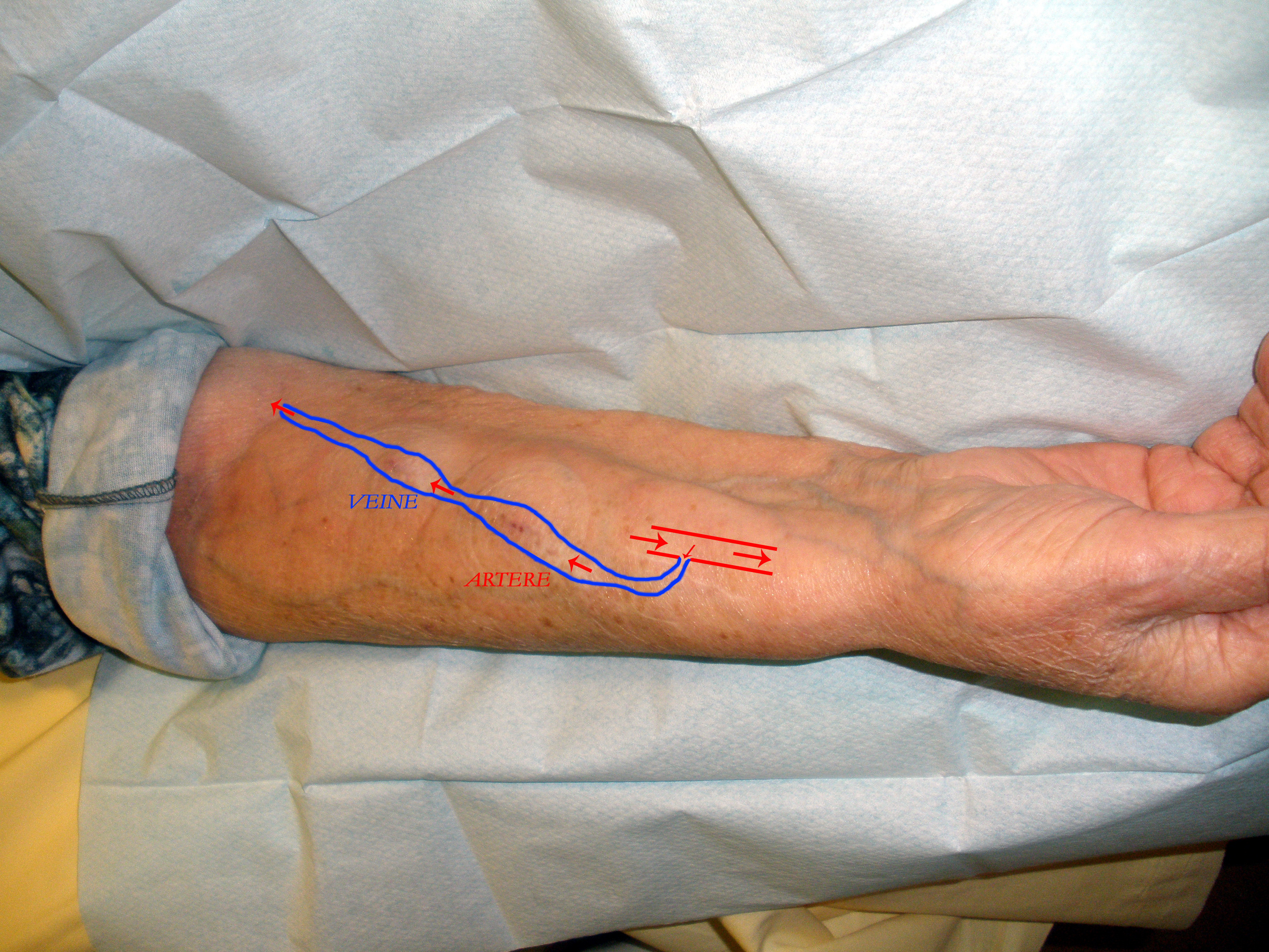 schema of an arteriovenous fistula used for hemodialysis